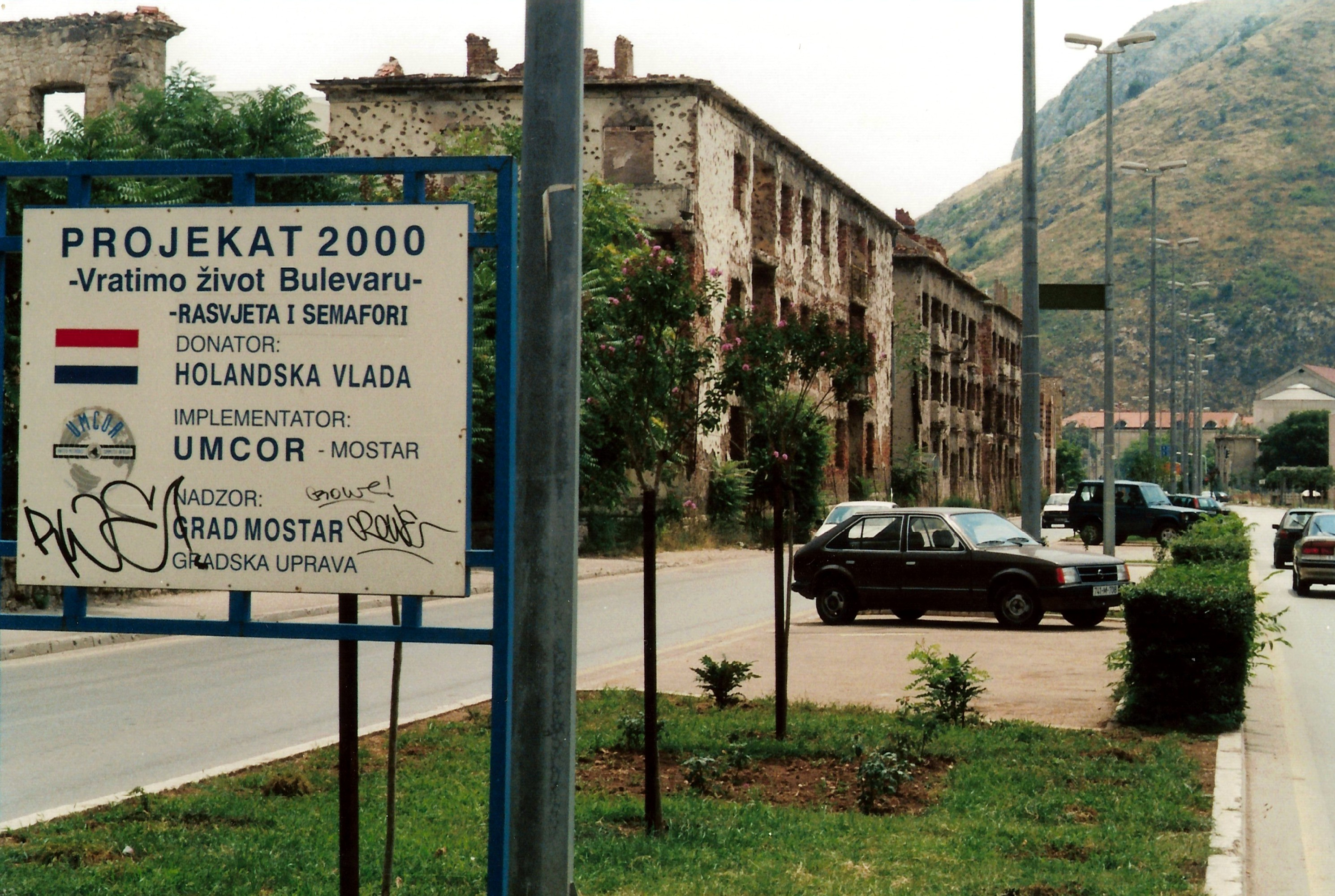 Damaged houses in Mostar (the west bank (Croat)). Damage is from the Bosnian War. Sign is from a UMCOR rebuilding project (donated by the Dutch government). Geolocation is a guess. Scan from a conventional photo. Enhanced with The Gimp.